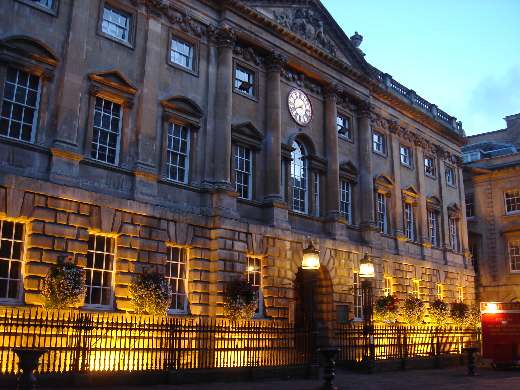 Taken by Wikikob 19:21, 25 August 2006 (UTC) on 24th August 2006 with Sony Cybershot